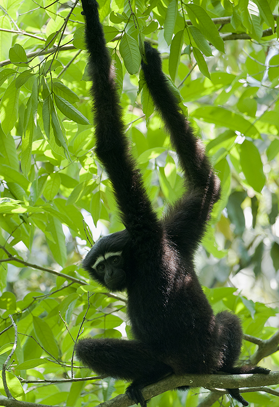 A male Western Hoolock Gibbon (Hoolock hoolock) from the Hoollongapar Gibbon Sanctuary in Assam, India.